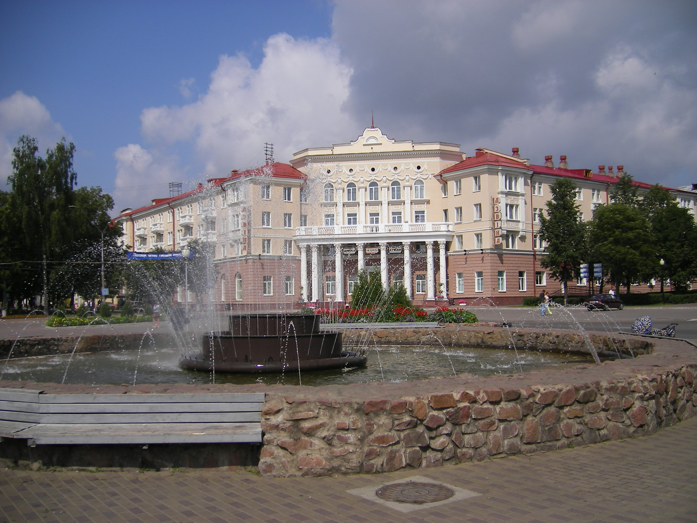 Dzvina Hotel and Frantsyska Skaryny Avenue in Polack